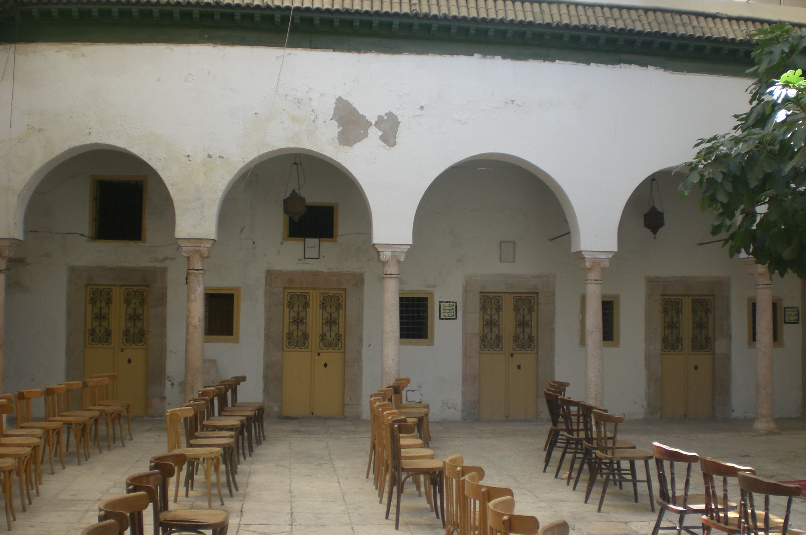 The Interior Of Medersa Achouria-Tunis